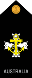 depiction of RAN Chaplains shoulder rank slide